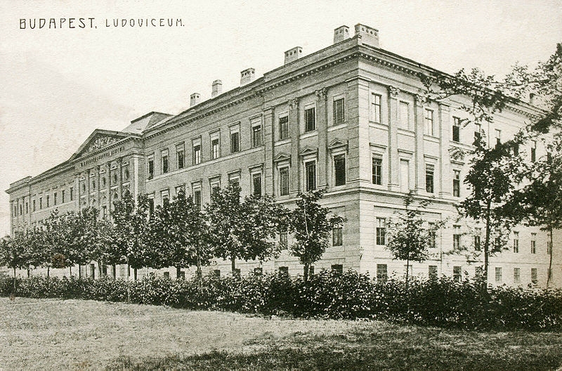 Drawing of the Ludovica Military Academy, Budapest, 1913